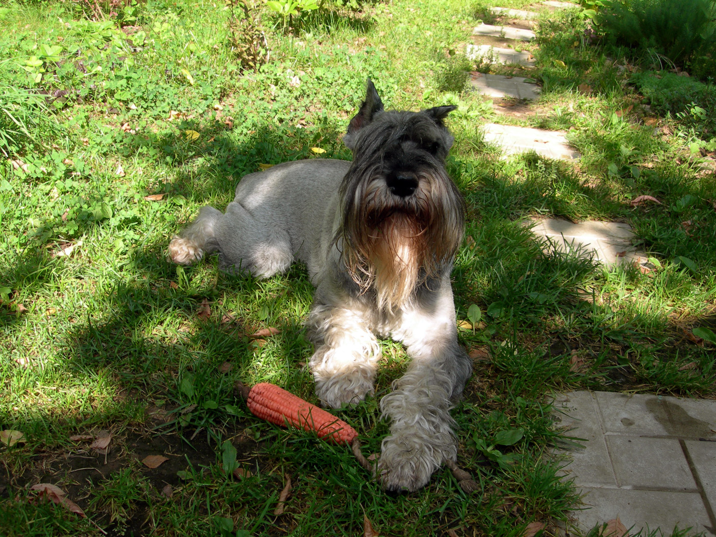 Standard schnauzer.